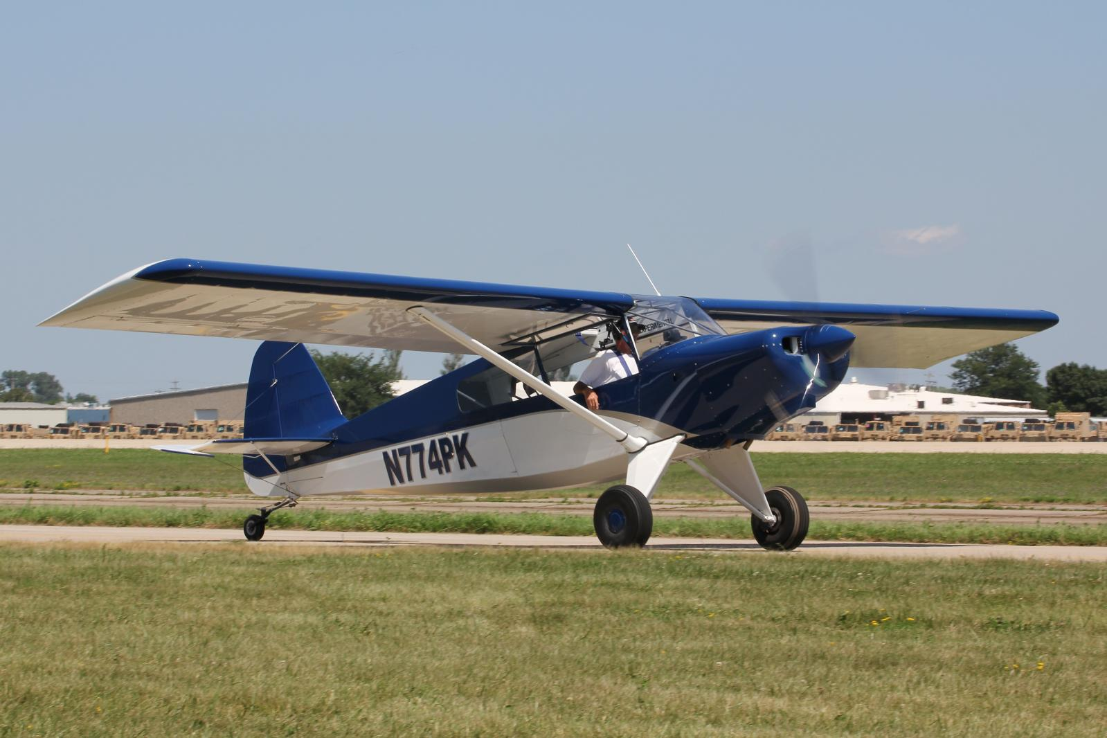 Donald M Aldridge/j Hatcher Fe Bearhawk Patrol (N774PK)